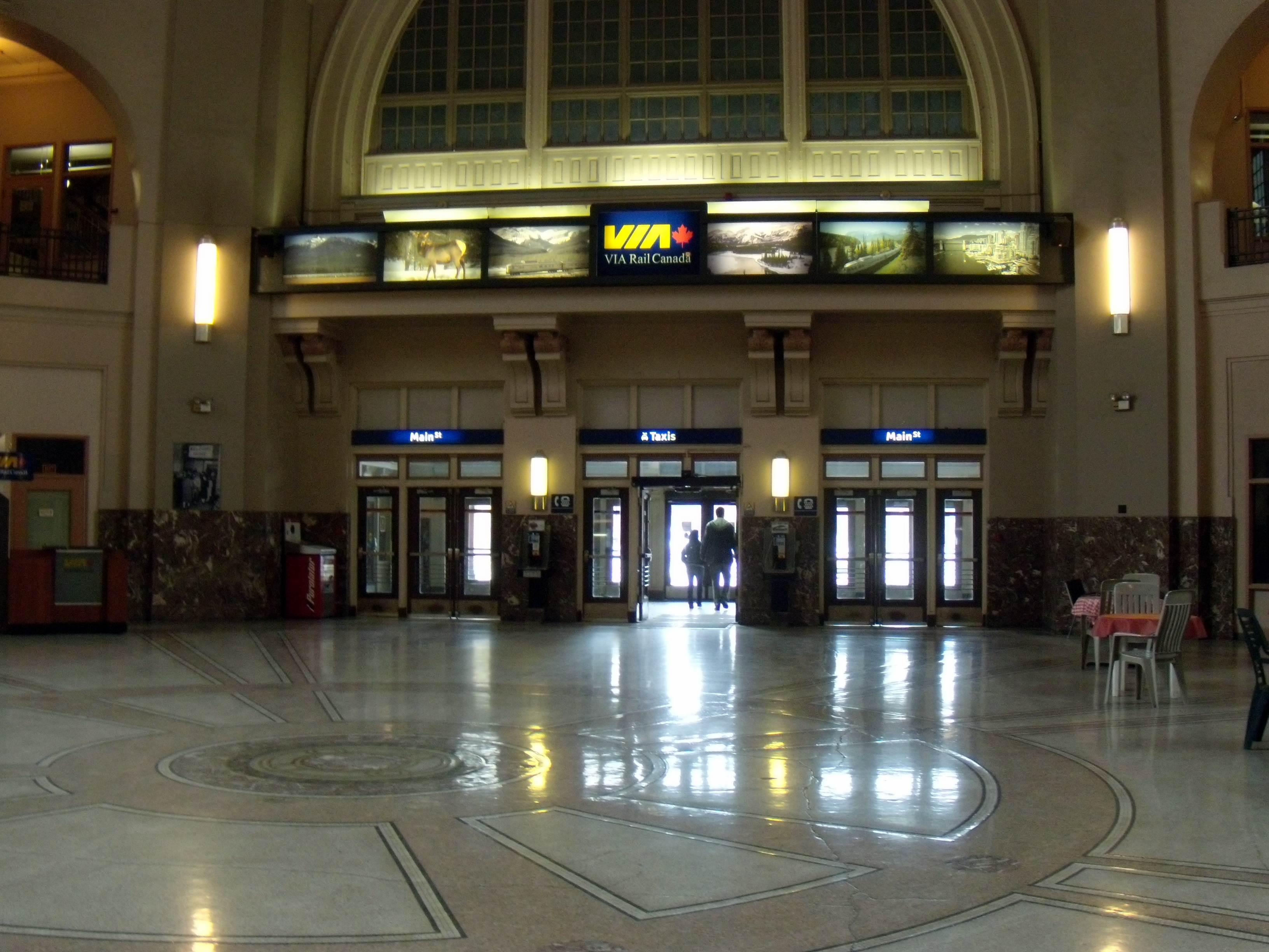 Main St entrance to Union Station, Winnipeg as seen from rotunda